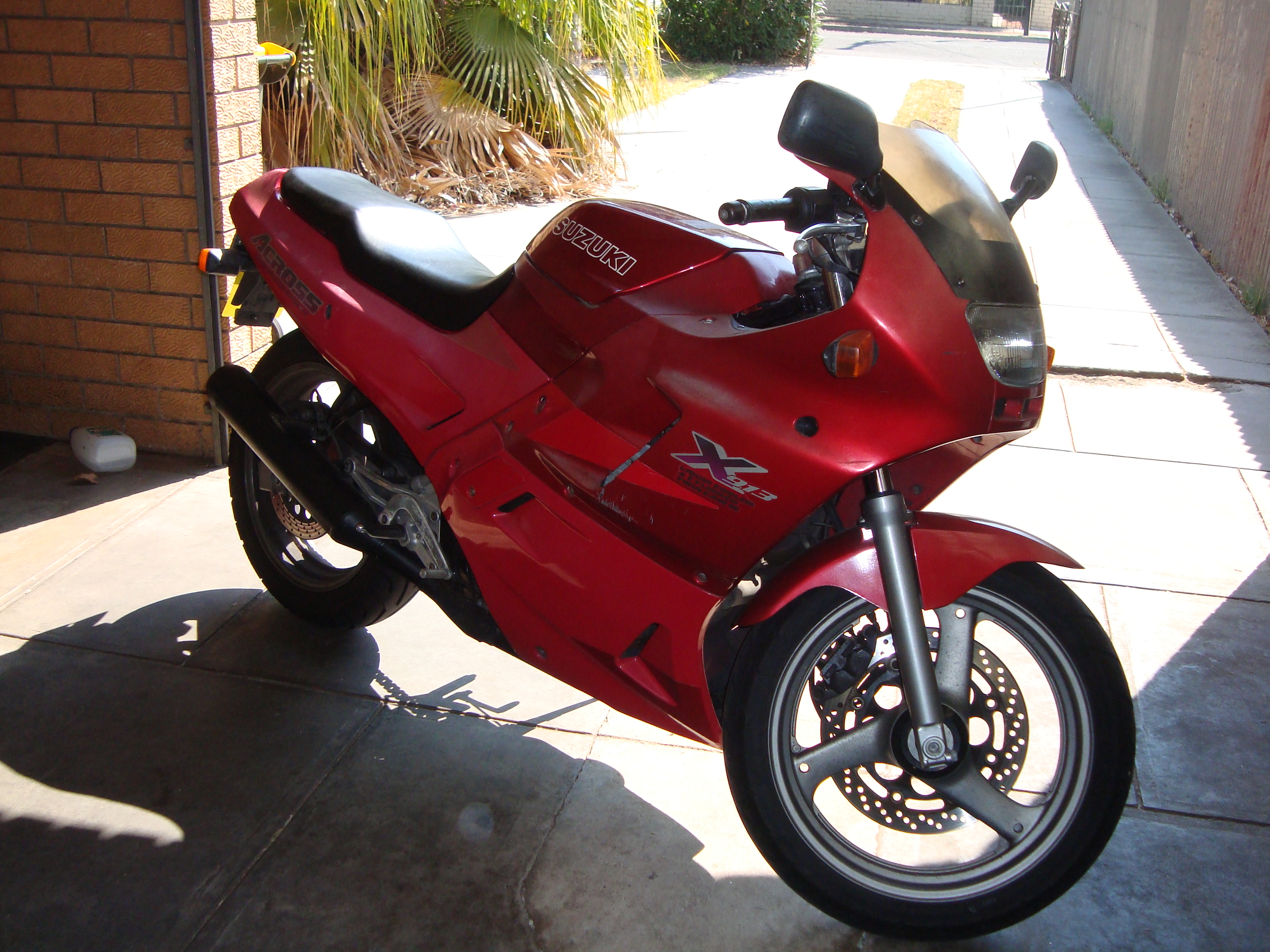 This image is of a Suzuki GSX250F Across, taken on the 16th February 2009.